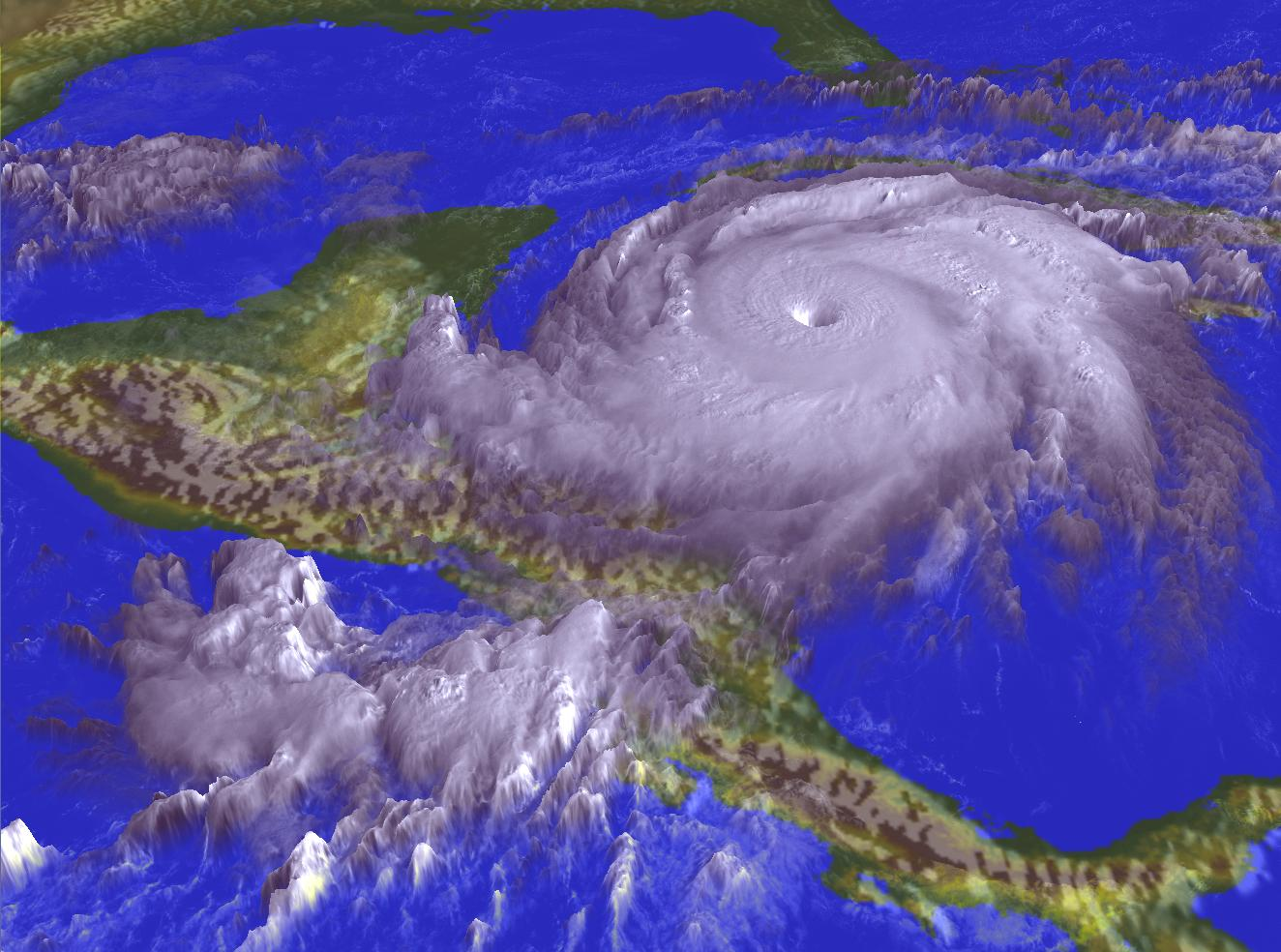 Hurricane Mitch approaching Honduras on 1998 October 26, 13:15 UT.